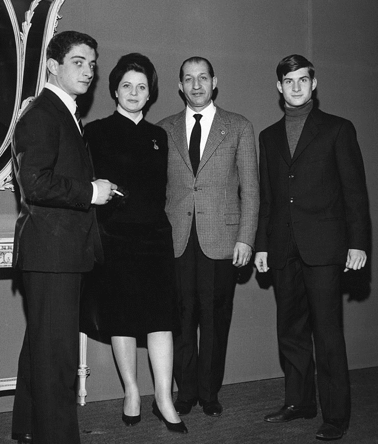 The cyclist Gino Bartali posing with his wife Adriana and their children Andrea and Luigi. Florence, March 1963